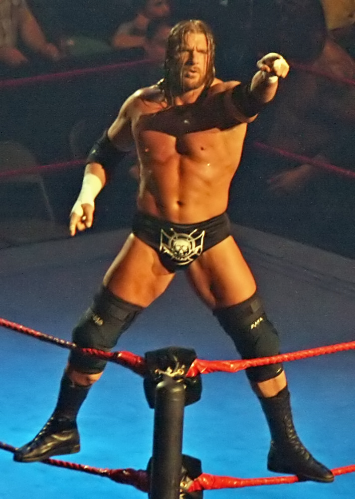 Triple H (Paul Michael Levesque) pointing to the crowd following his iconic ring entrance pose. Taken during the WWE Raw - Survivor Series Tour, at Rod Laver Arena, Melbourne Park, Melbourne, Australia. Triple H wrestled in the main event of the night, a tag-team bout involving Umaga & Randy Orton (reigning WWE Champion) vs Jeff Hardy & Triple H; the match was won by Triple H pinning Orton following a pedigree.